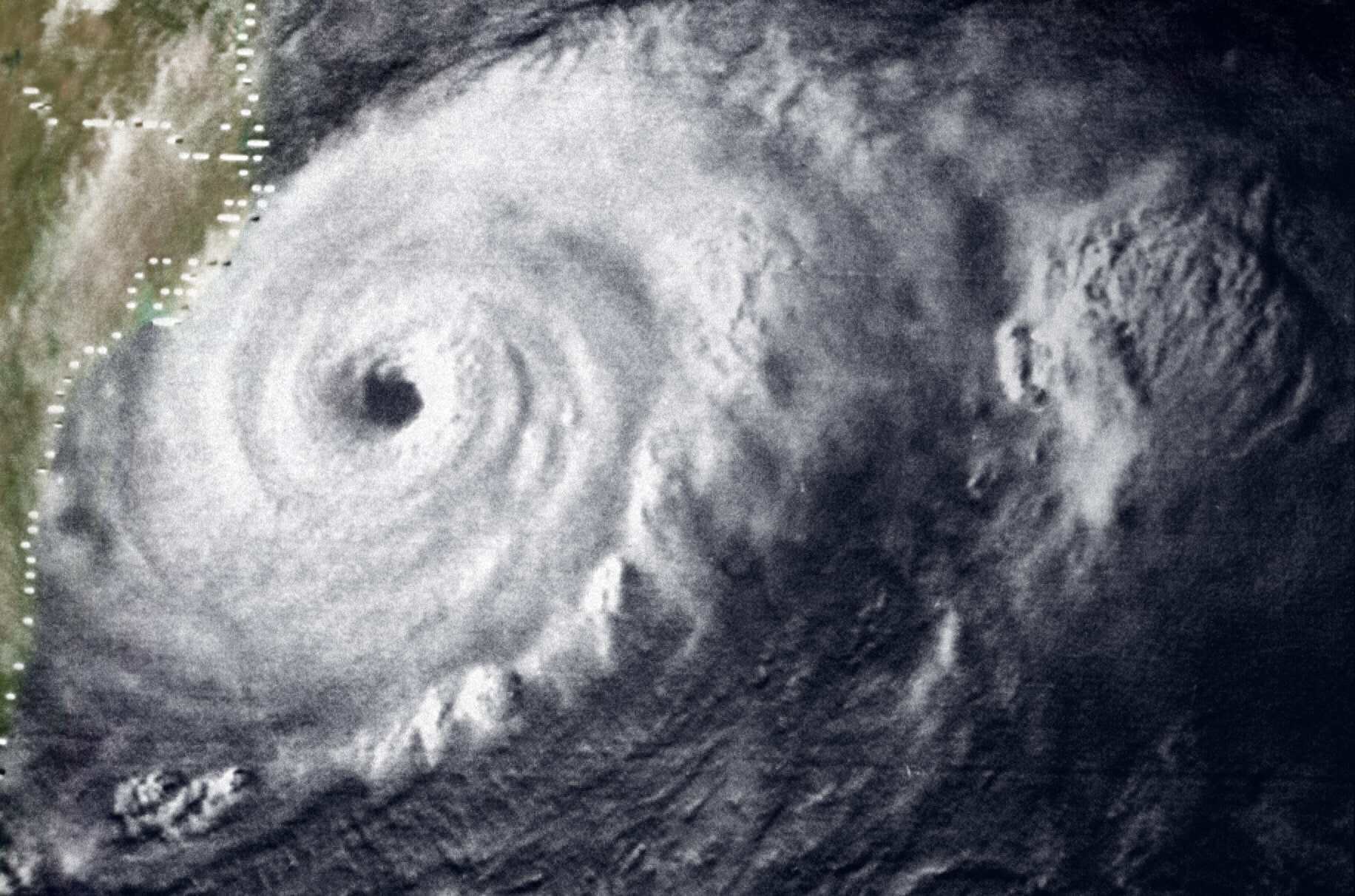 Picture from the NOAA Photo Library Hurricane Anita approaching landfall on the coast of Mexico Image ID: wea00495, Historic NWS Collection Photo Date: 09/01/77